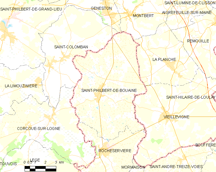 Map of French municipality Saint-Philbert-de-Bouaine